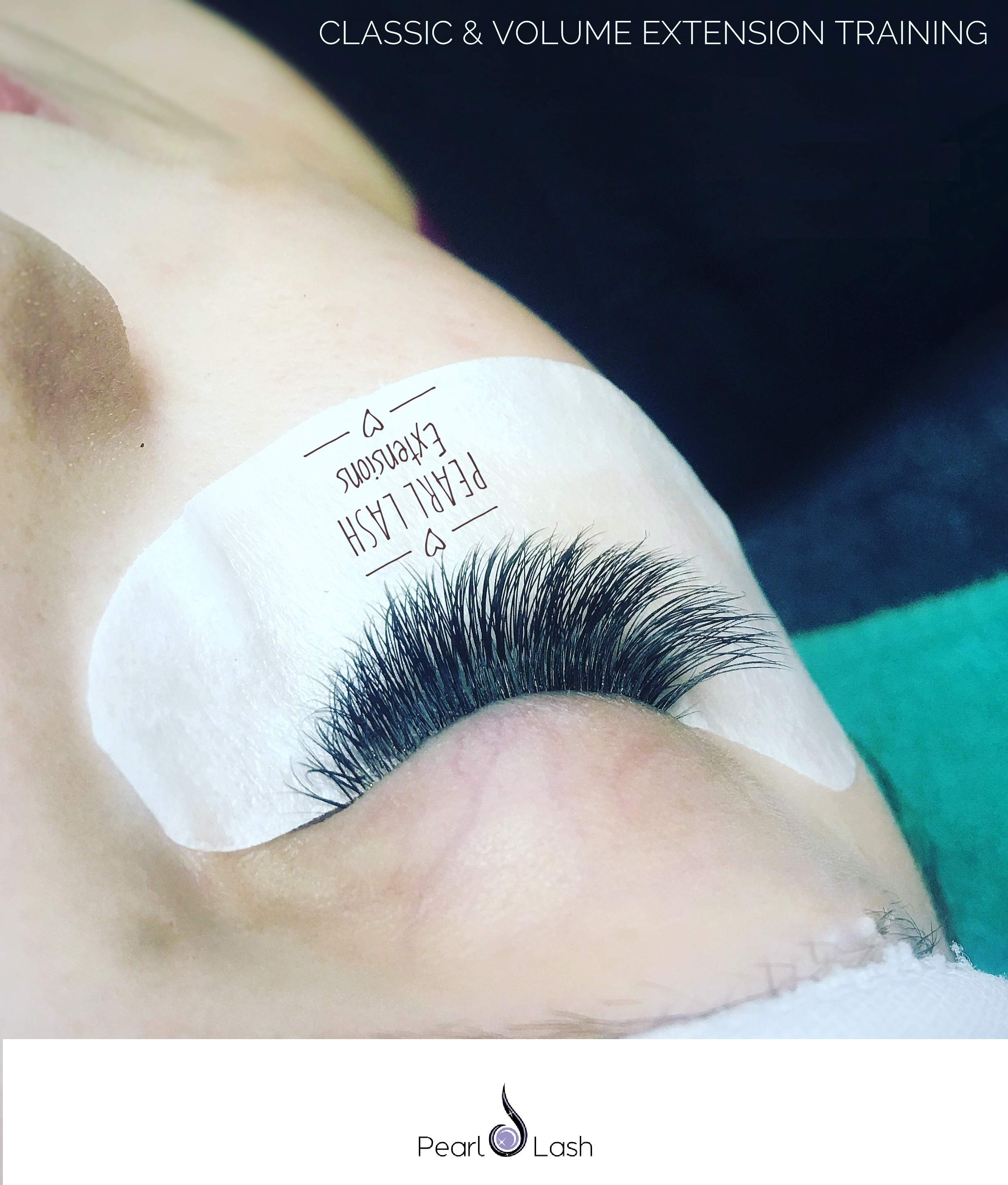 Example of newly applied individual semi-permanent eyelash extensions